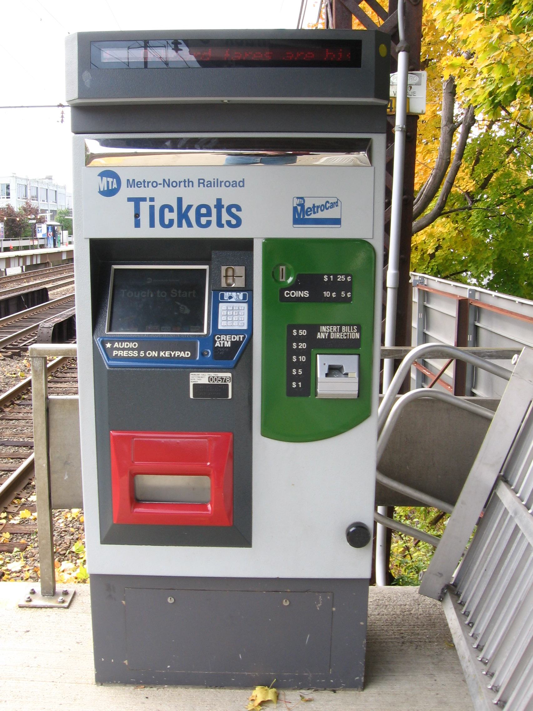 Ticket machine for Metro-North Railroad. This typical example is located at the East Norwalk Metro-North station in the East Norwalk section of Norwalk, Connecticut.